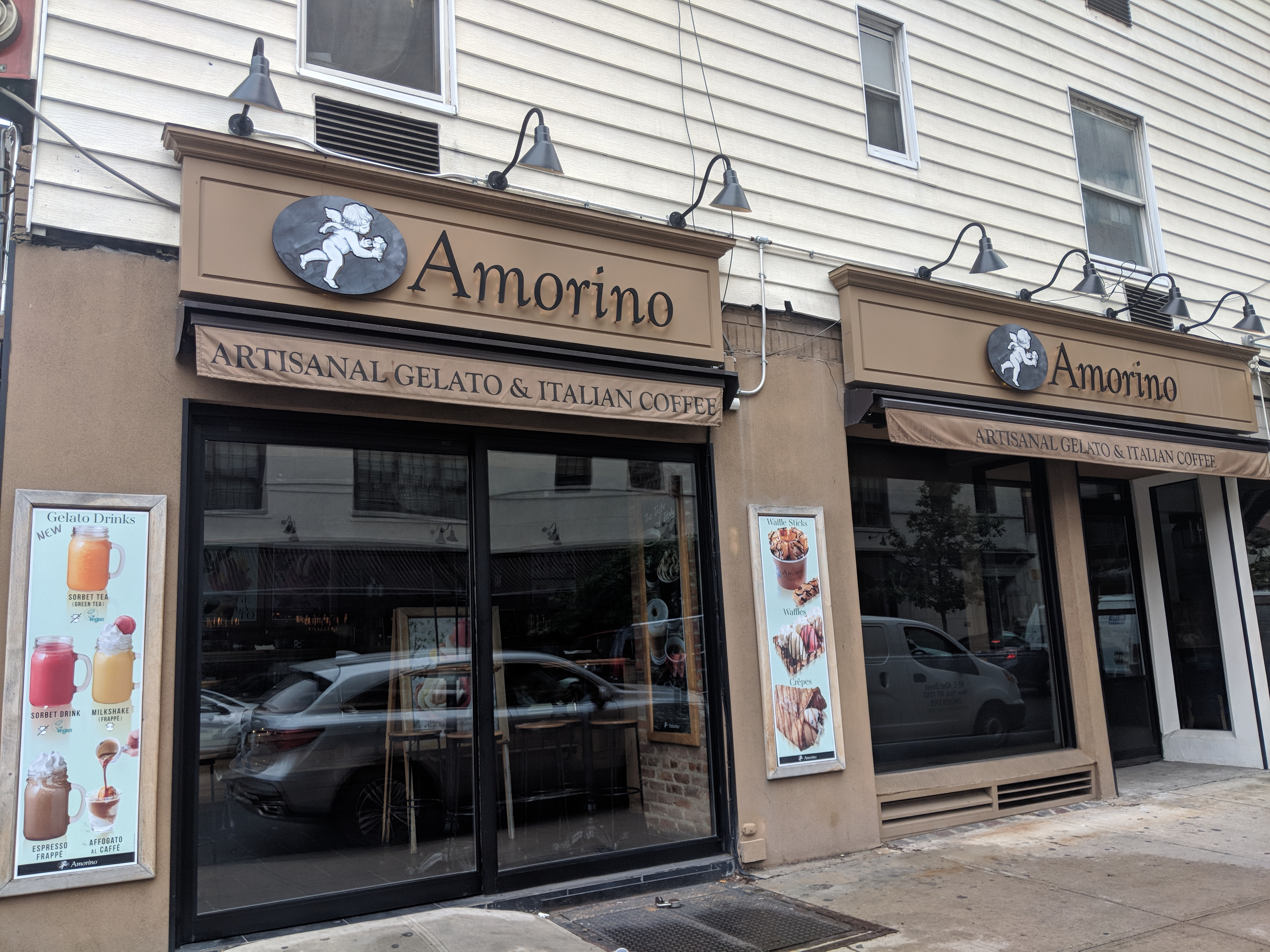 Amorino gelato shop storefront in Chelsea, NYC.